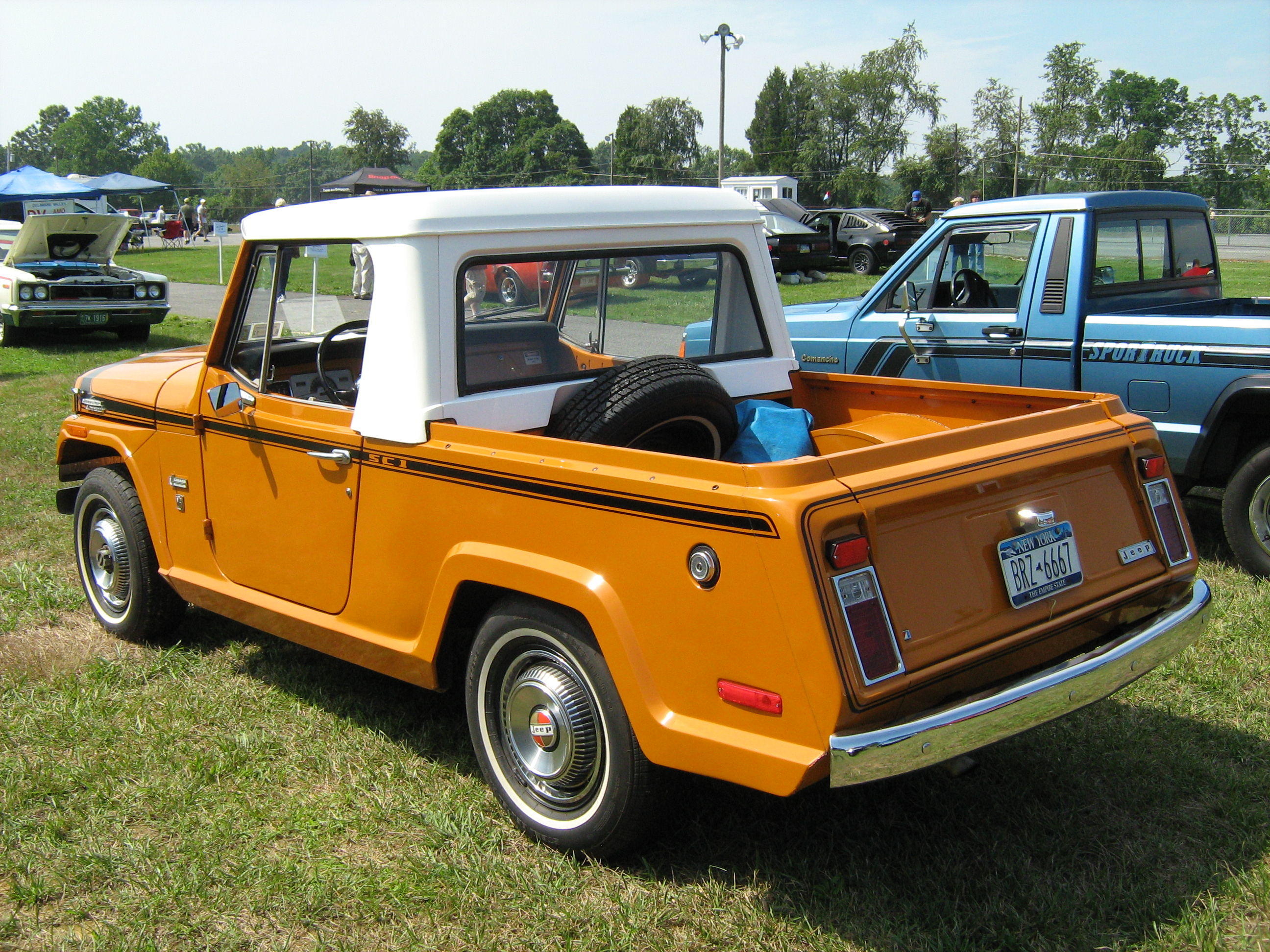 1971 Jeepster Commando pick up truck in the sporty SC-1 trim version. A four-wheel-drive with V6 engine and automatic transmission on the center floor console. Note the short bed with special well for the spare tire. Picture taken at the Cecil County Dragstrip in Maryland.